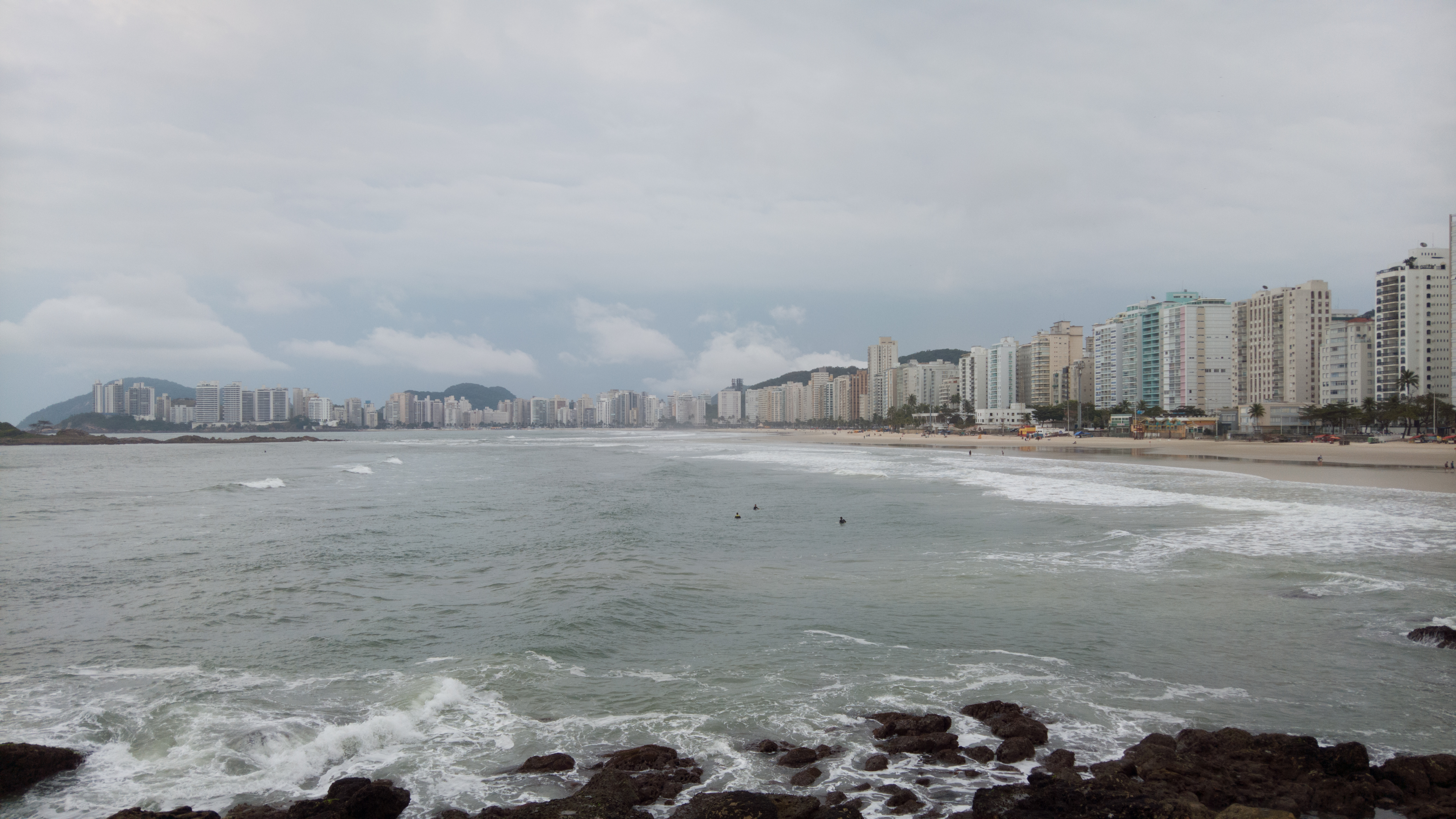 Pitangueiras Beach, in Guarujá, São Paulo, Brazil.